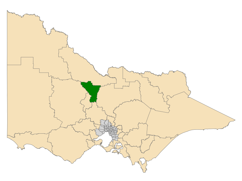 Location of the Electoral District of Bendigo East (dark green) in the state of Victoria, Australia. These boundaries were used for the Victorian state election on 29 November 2014.